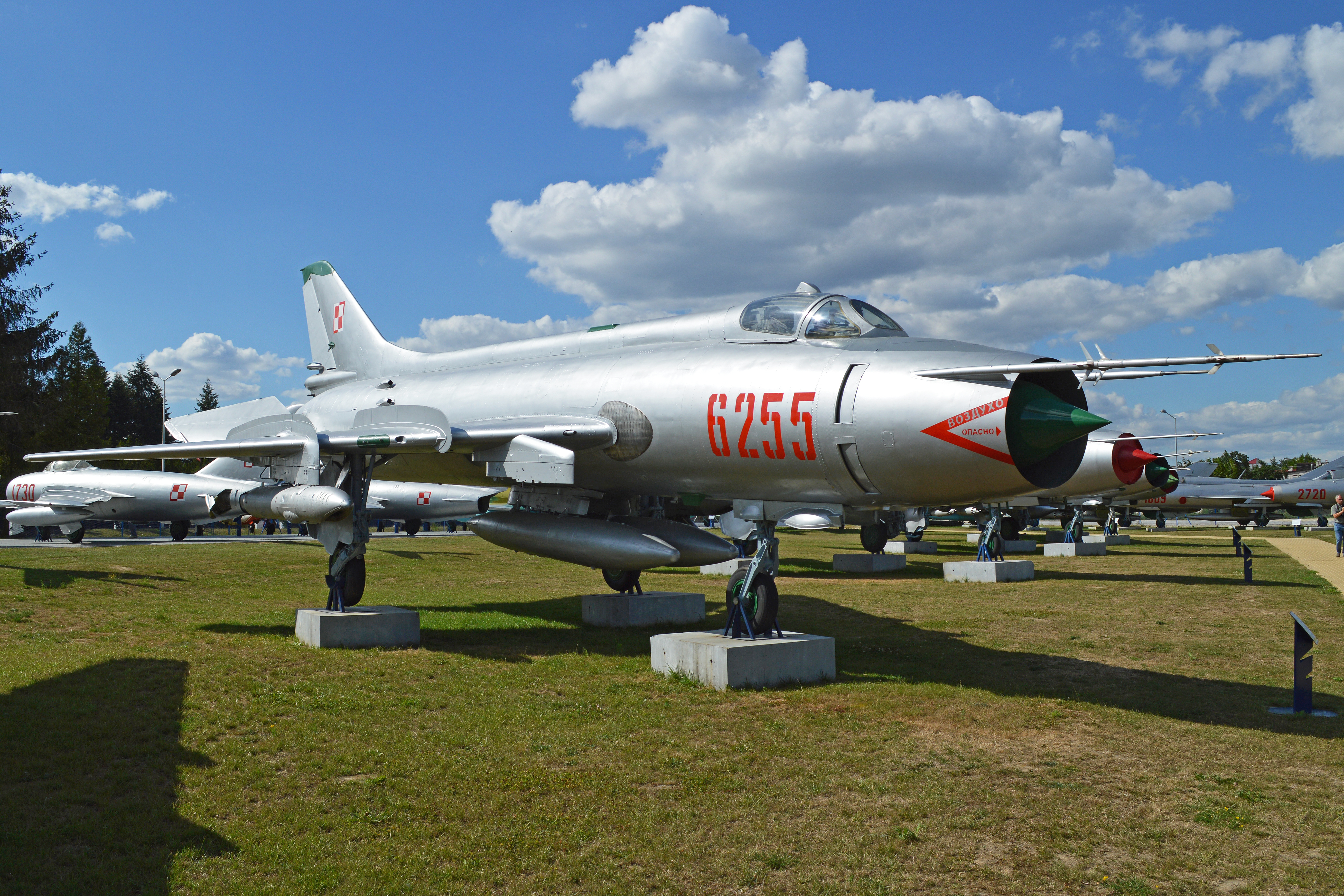 The Su-20 was the export version of the Su-17. The 'R' variant was modified to carry reconnaissance pods, 24 of which were delivered to Poland. The type had the NATO codename 'Fitter-C'. c/n 76305. On display at the Muzeum Sit Powietrznych. Deblin, Poland. 25-8-2013